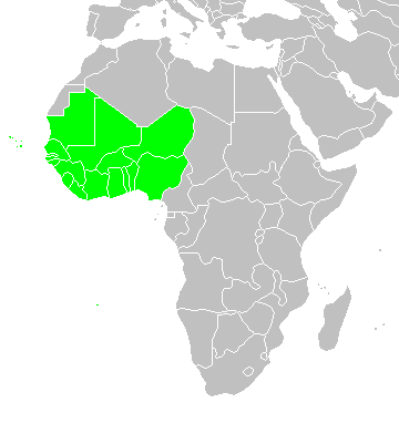 The map of Western-Africa subregion